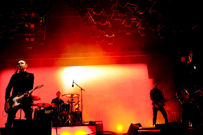 Kent Live in 2008